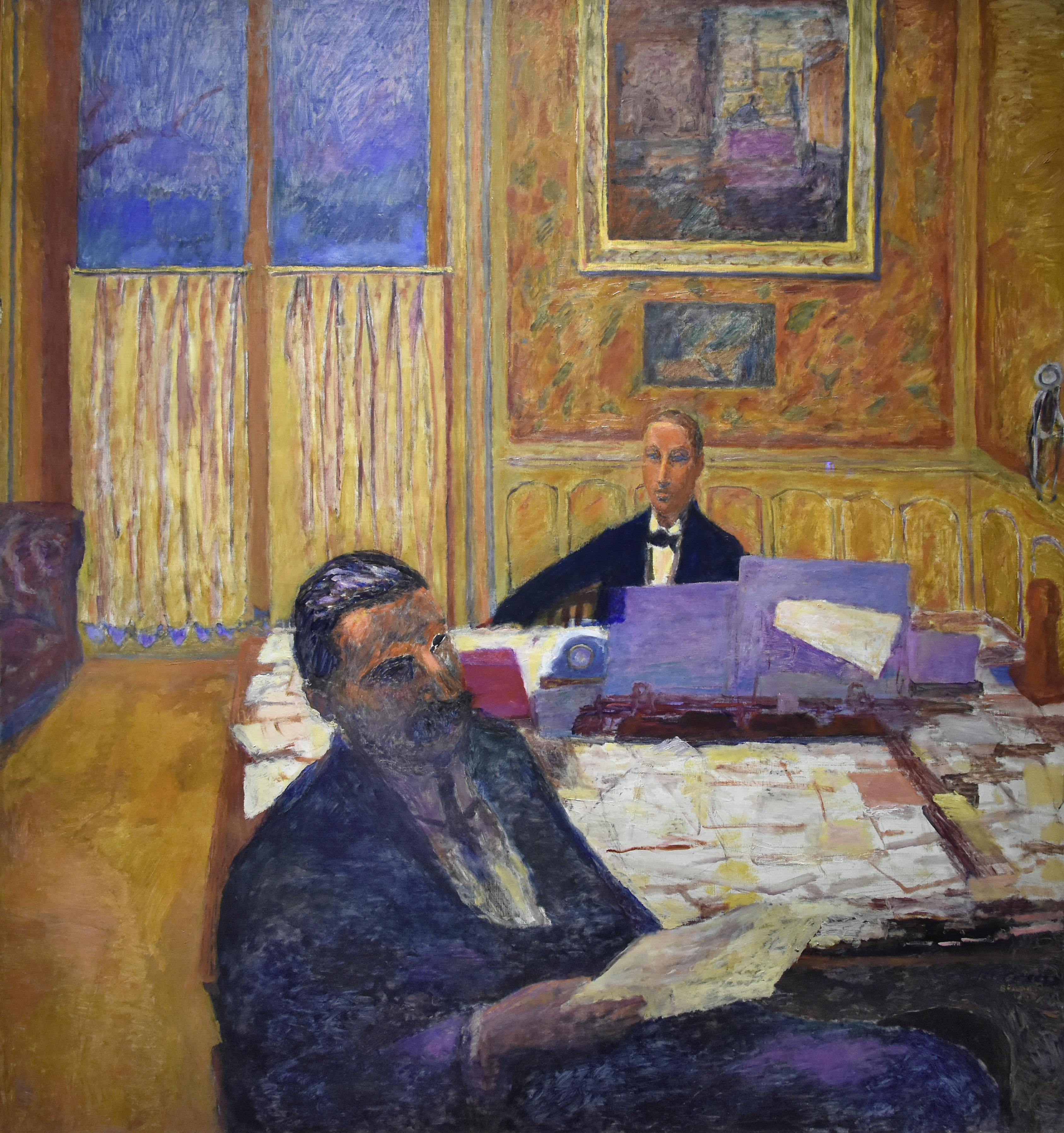 Pierre Bonnard (1867-1947) The brothers Bernheim-Jeune, oil on canvas, 166 x 155 cm, Musée d'Orsay, Paris